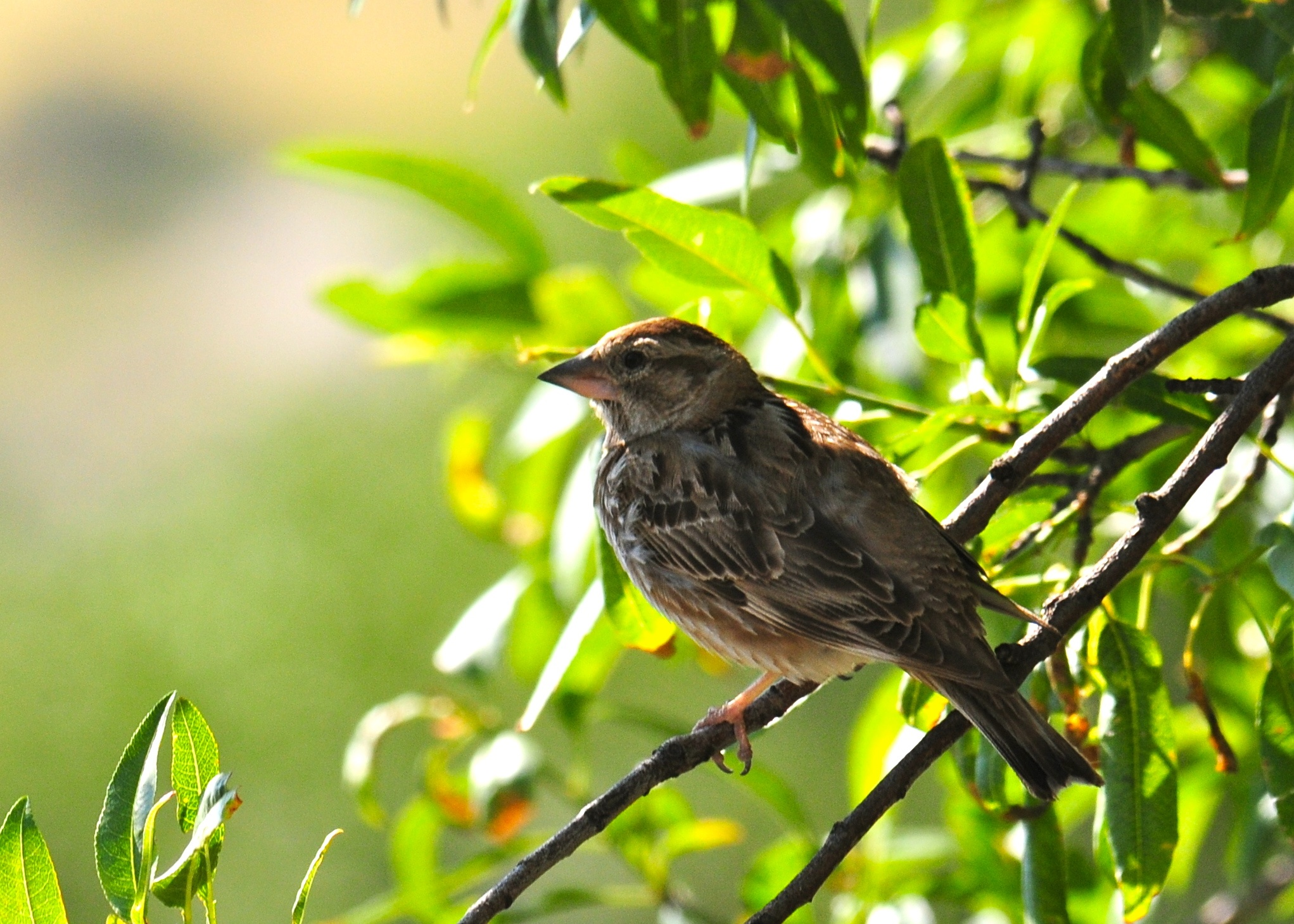 Rock Sparrow Petronia petronia, Ürgüp, Nevşehir, Turkey.